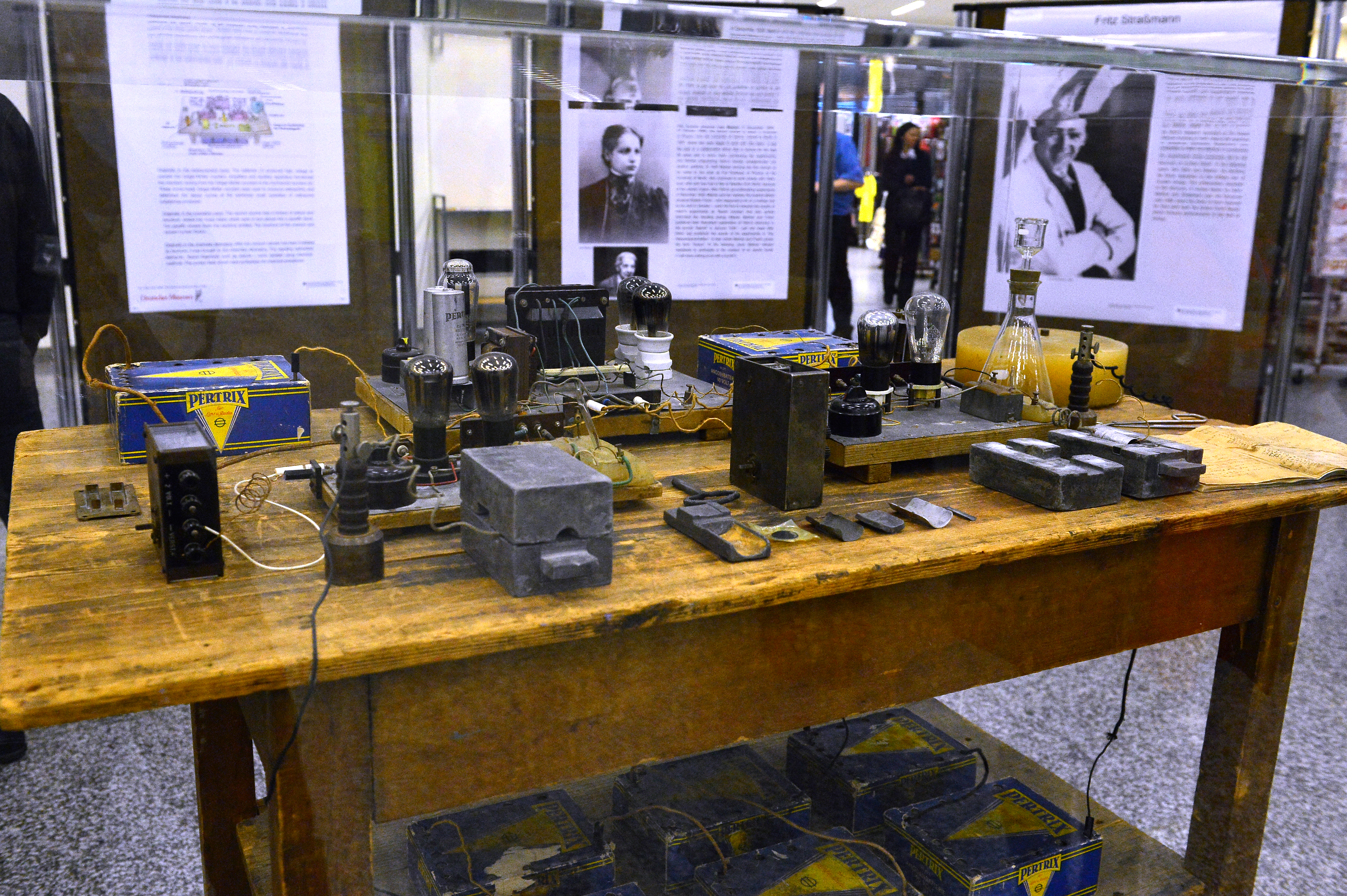 Exhibition, organised by the Permanent Mission of Federal Republic of Germany, to mark the 75th anniversary of the discovery of nuclear fission, at the Vienna International Centre. Replica of Dr. Otto Hahn’s laboratory table, loaned by the Deutsches Museum Munich. Vienna, Austria, 25 November 2013. Photo Credit: Dean Calma / IAEA